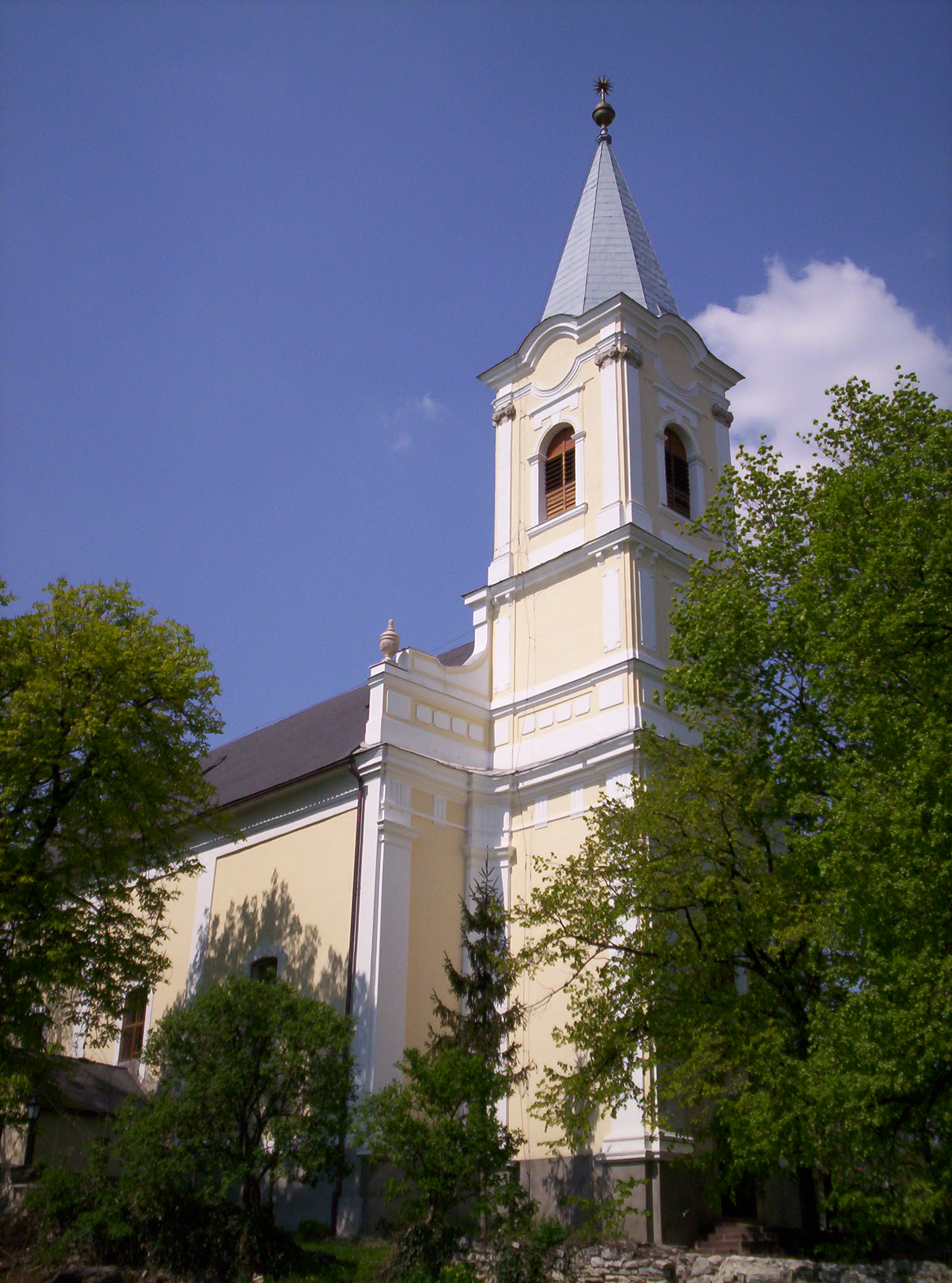 Reformed church of quarter "Jeruzsálemhegy", Veszprém